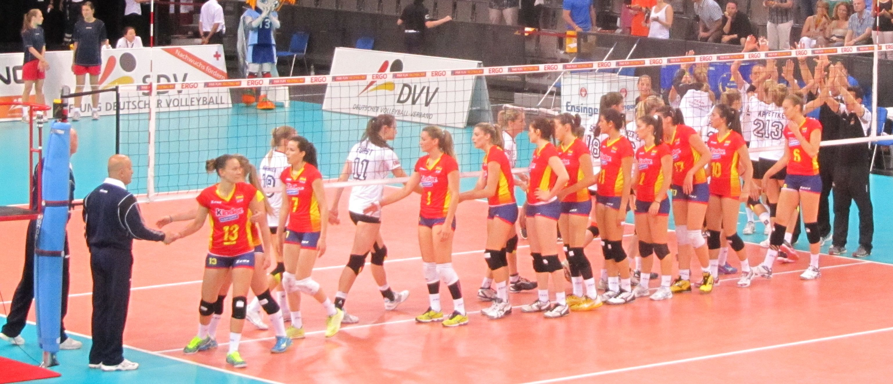 shakehands at the European League volleyball match Germany vs. Spain 2014 in Stuttgart